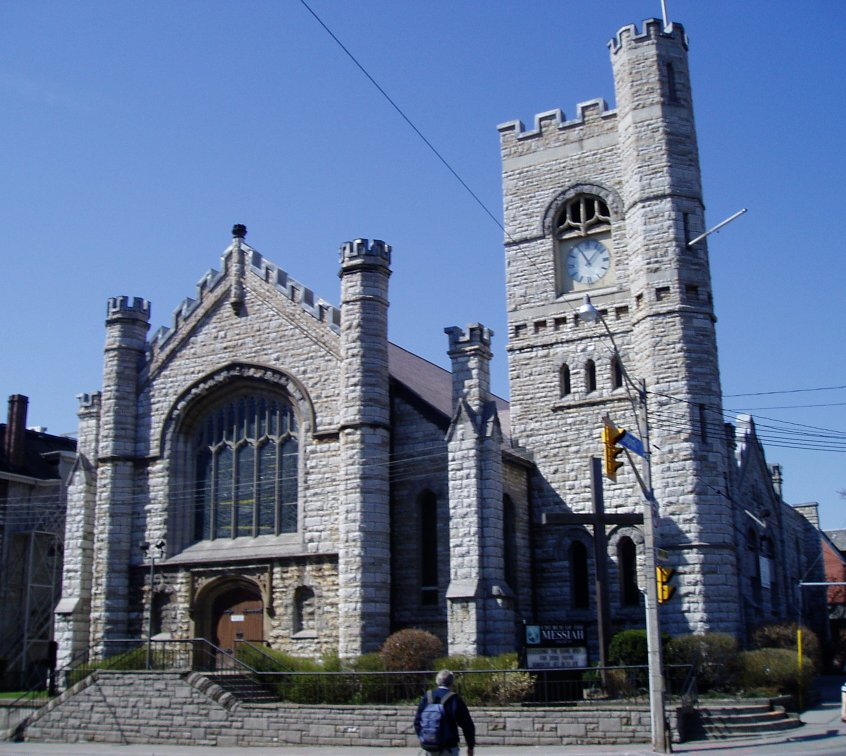 Church of the Messiah, Toronto. Taken by SimonP in April 2005